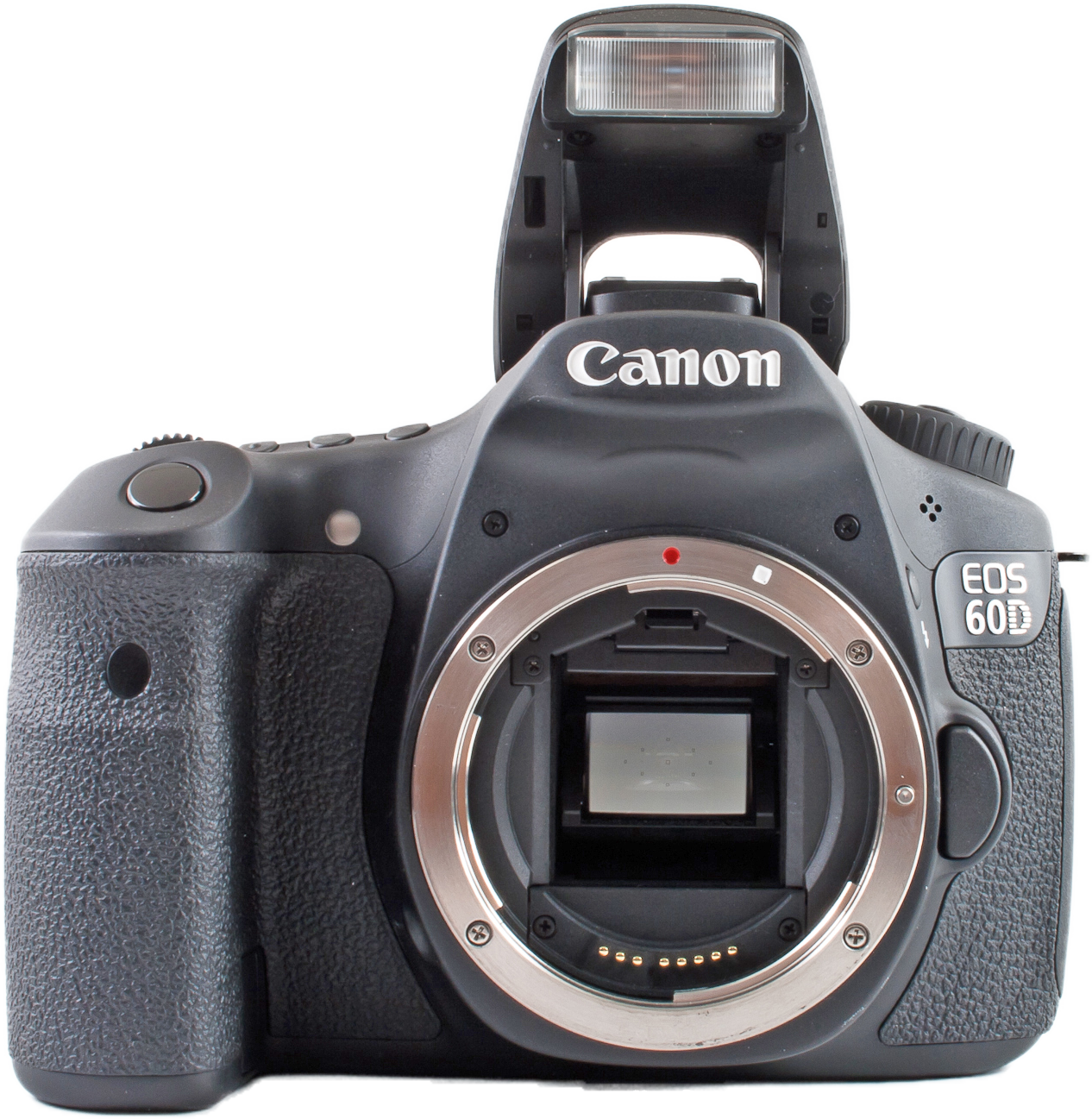 Canon EOS 60D without lens